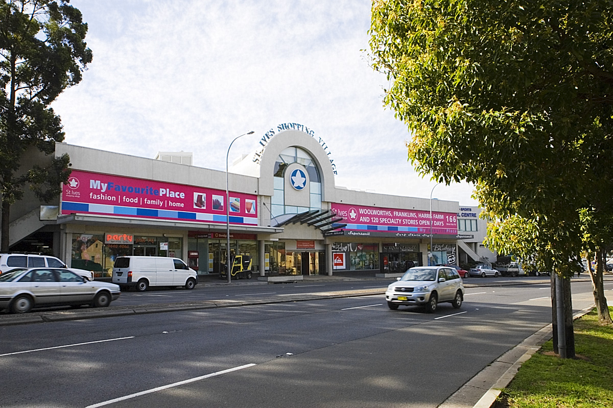 St. Ives shopping Village, on Mona Vale Road, by me, 17AUG2006 Mike Funnell 00:08, 21 August 2006 (UTC)